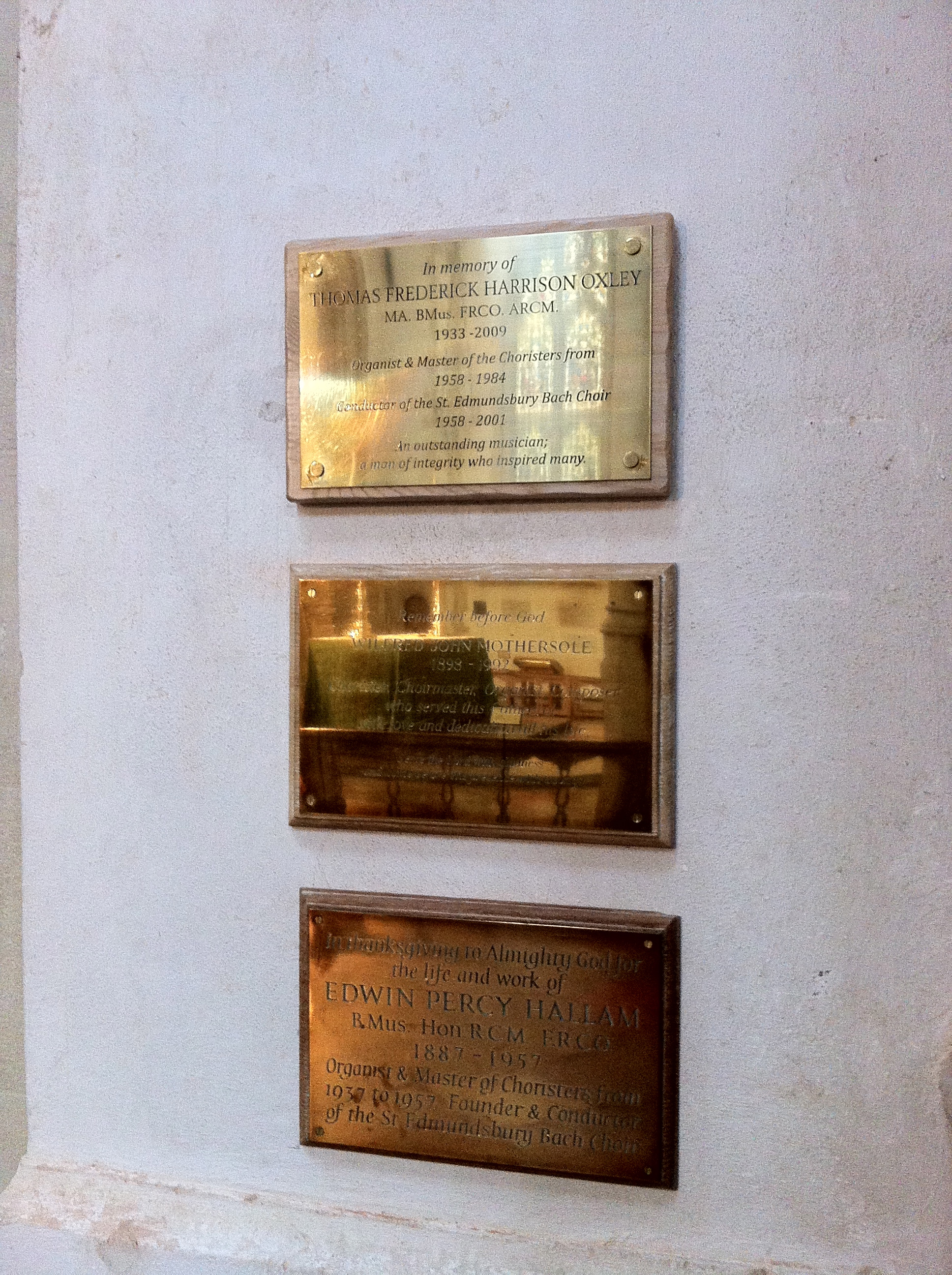 Thomas Frederick Harrison Oxley Wilfred John Mothersole Edwin Percy Hallam